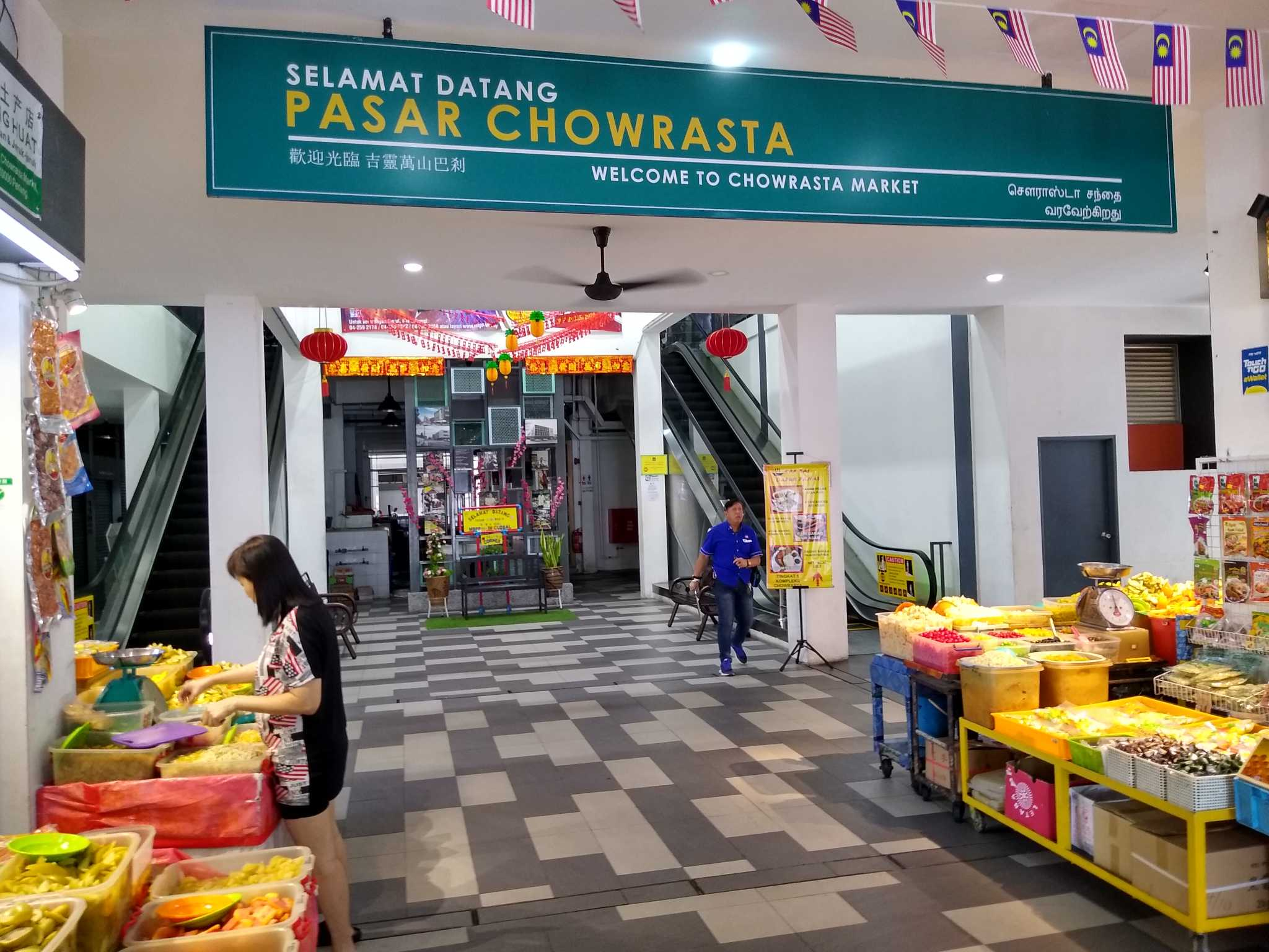 Entrance of Chowrasta Market in Penang, Malaysia.